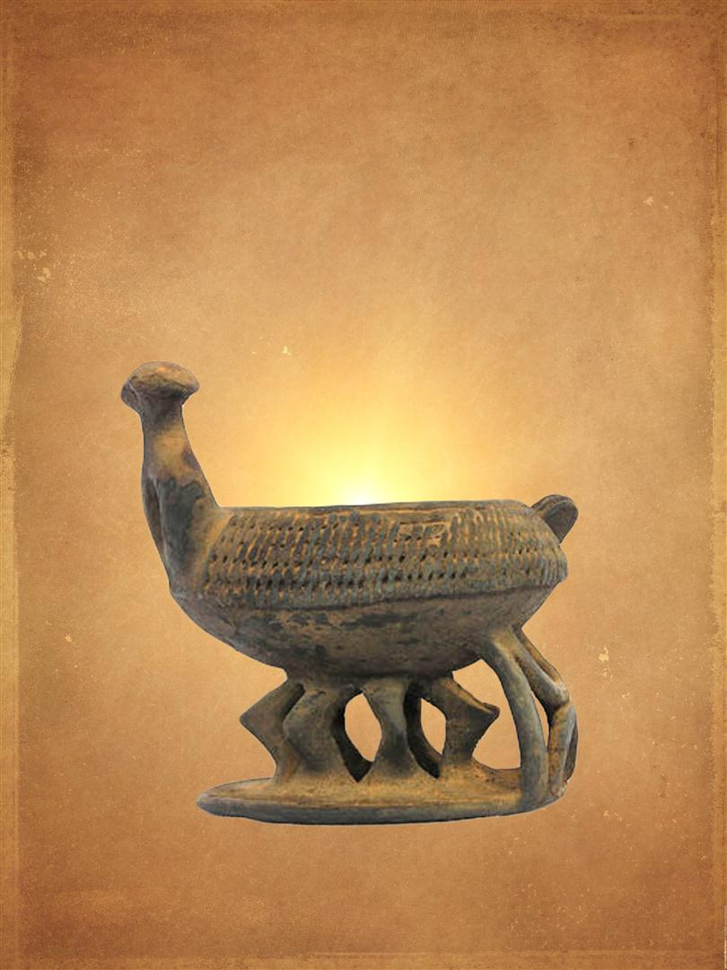 These are photos of the collection at the Mus'art Gallery in Cameroon. The Gallery is a content partner for the Wikipedia project called WikiAfrica. Musart Galleries have granted permission to WikiAfrica to release them on Wikipedia and have effected the CC-BY-SA license on their website